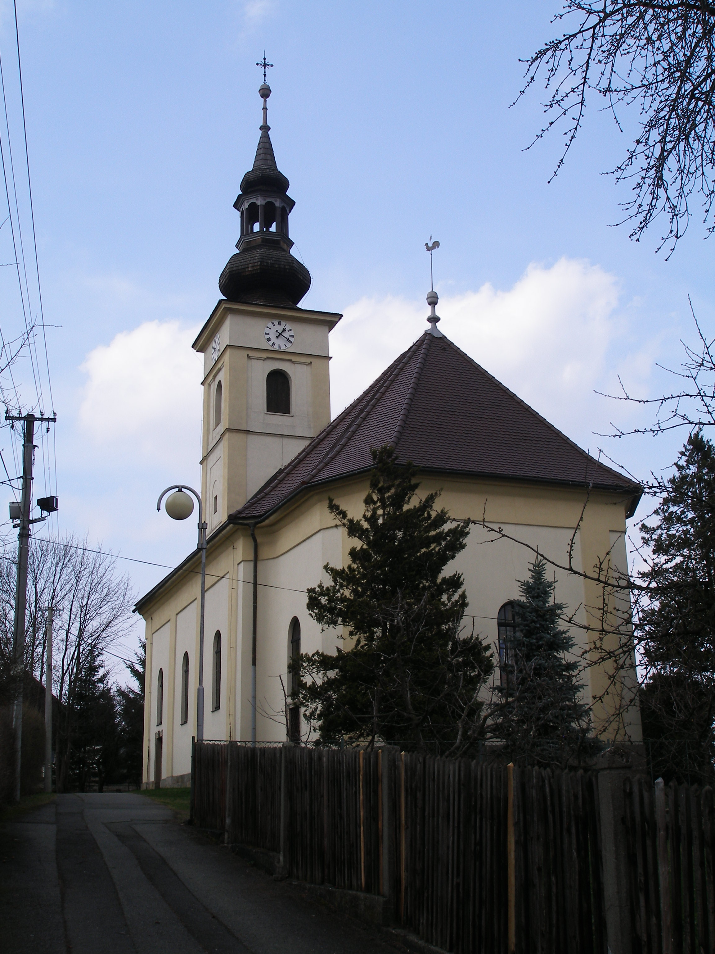 Evangelical church in Hodslavice.